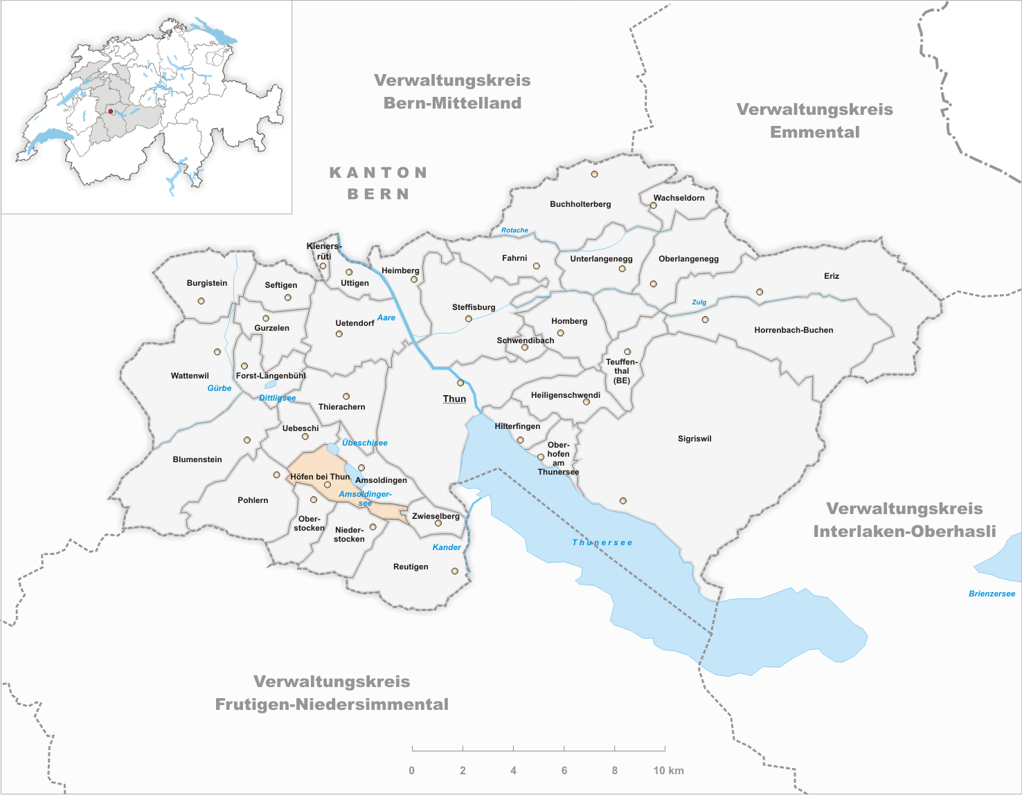 Municipality Höfen bei Thun